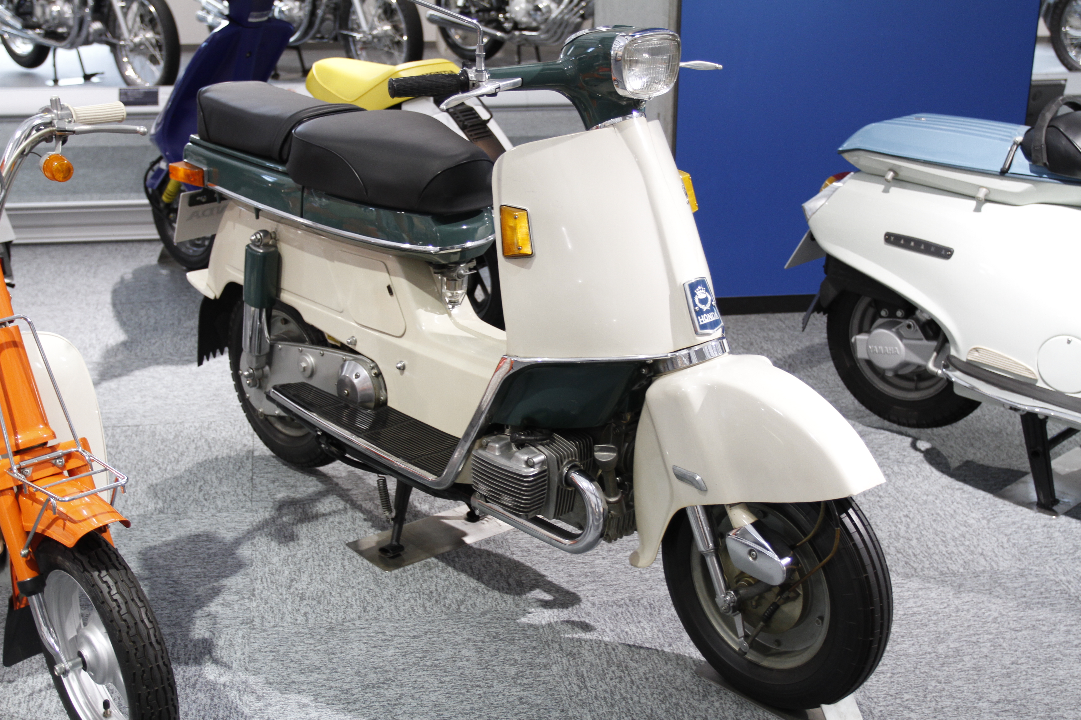 HONDA JUNO M85 photographed in Honda Collection Hall.